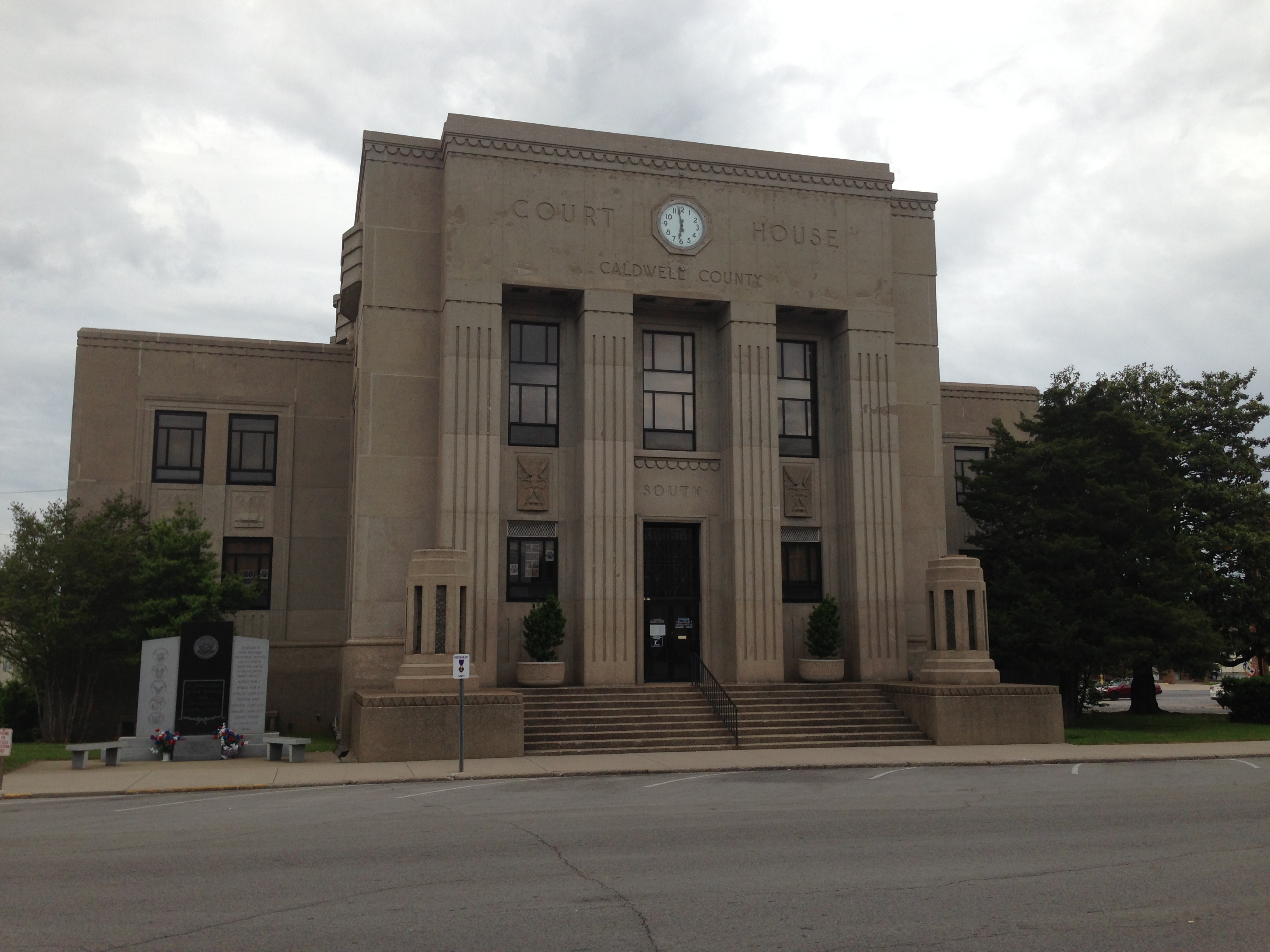 Caldwell County Courthouse